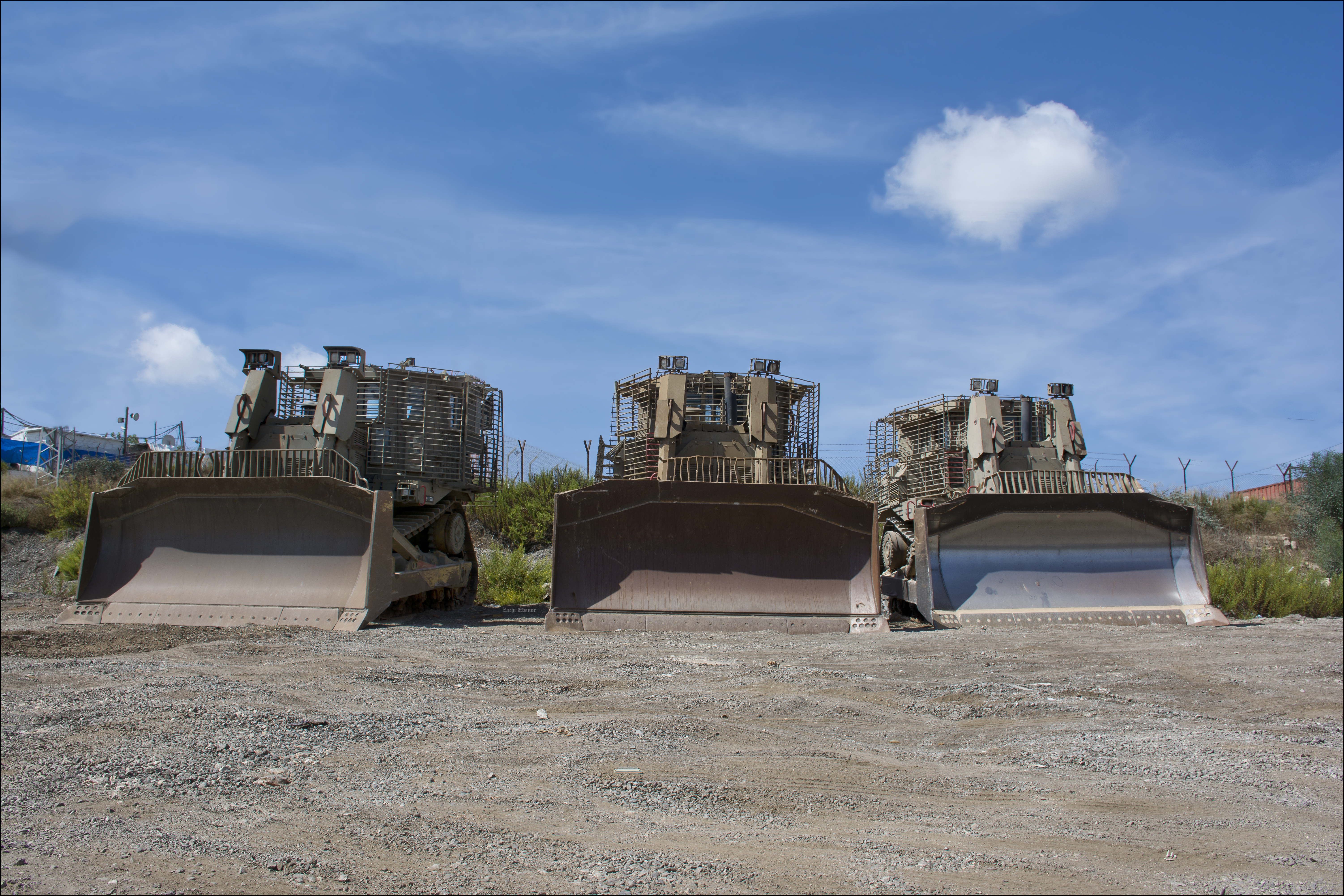 IDF Caterpillar D9 "Doobi" armored bulldozer. The IDF uses the armored version of Caterpillar D9 tracked-type tractor bulldozer for combat engineering and counter-terrorism operations. The Israeli armor kit proved itself very effective against terrorist weapons, a specially against large "belly charge" IEDs and roadside bombs. Military experts cite the IDF D9 as a key factor in keeping IDF casualties low in the ongoing war against Palestinian terrorism.